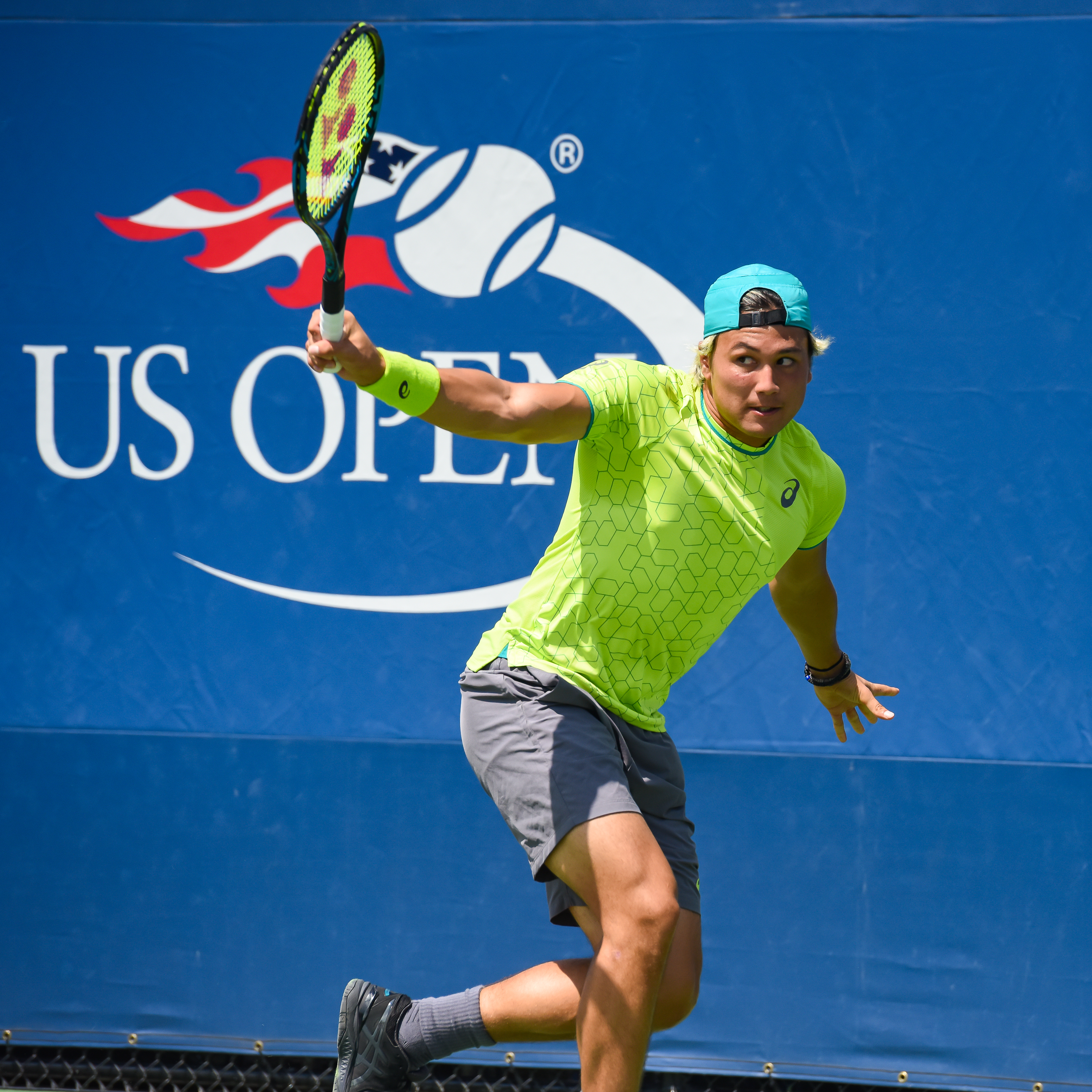 August 24, 2017 Court 8 Flushing, NY Akira Santillan.